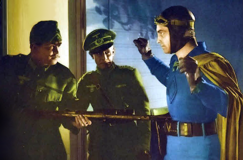 Cropped and edited lobby card for Republic Pictures' Spy Smasher, featuring Kane Richmond in the title role. Image is assumed to be in the public domain, as no copyright notice is in evidence.